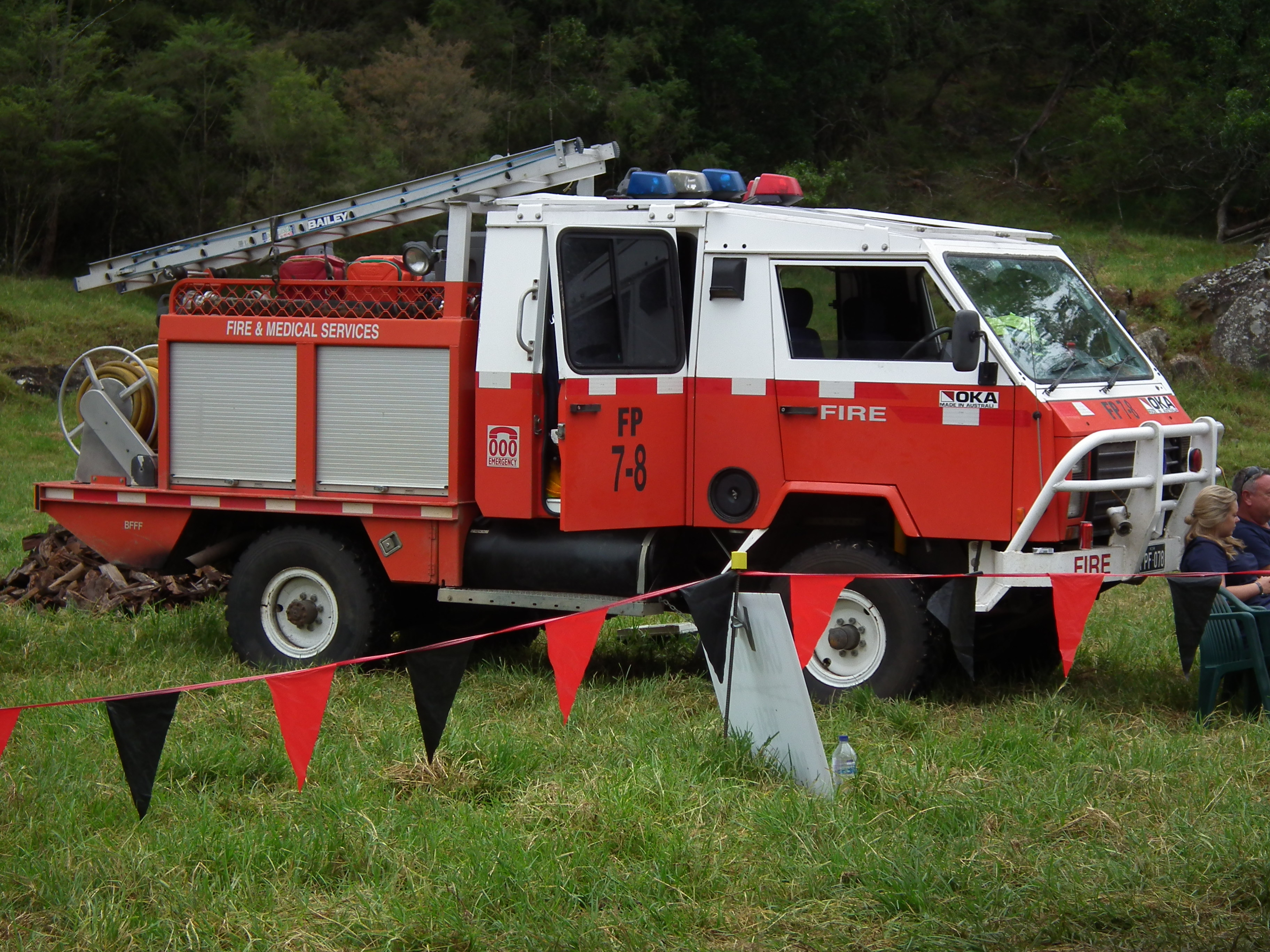 1995 OKA Crew cab 4WD fire truck. Looks like a former New South Wales Rural Fire Service truck, now being used by a privately operated event fire service.